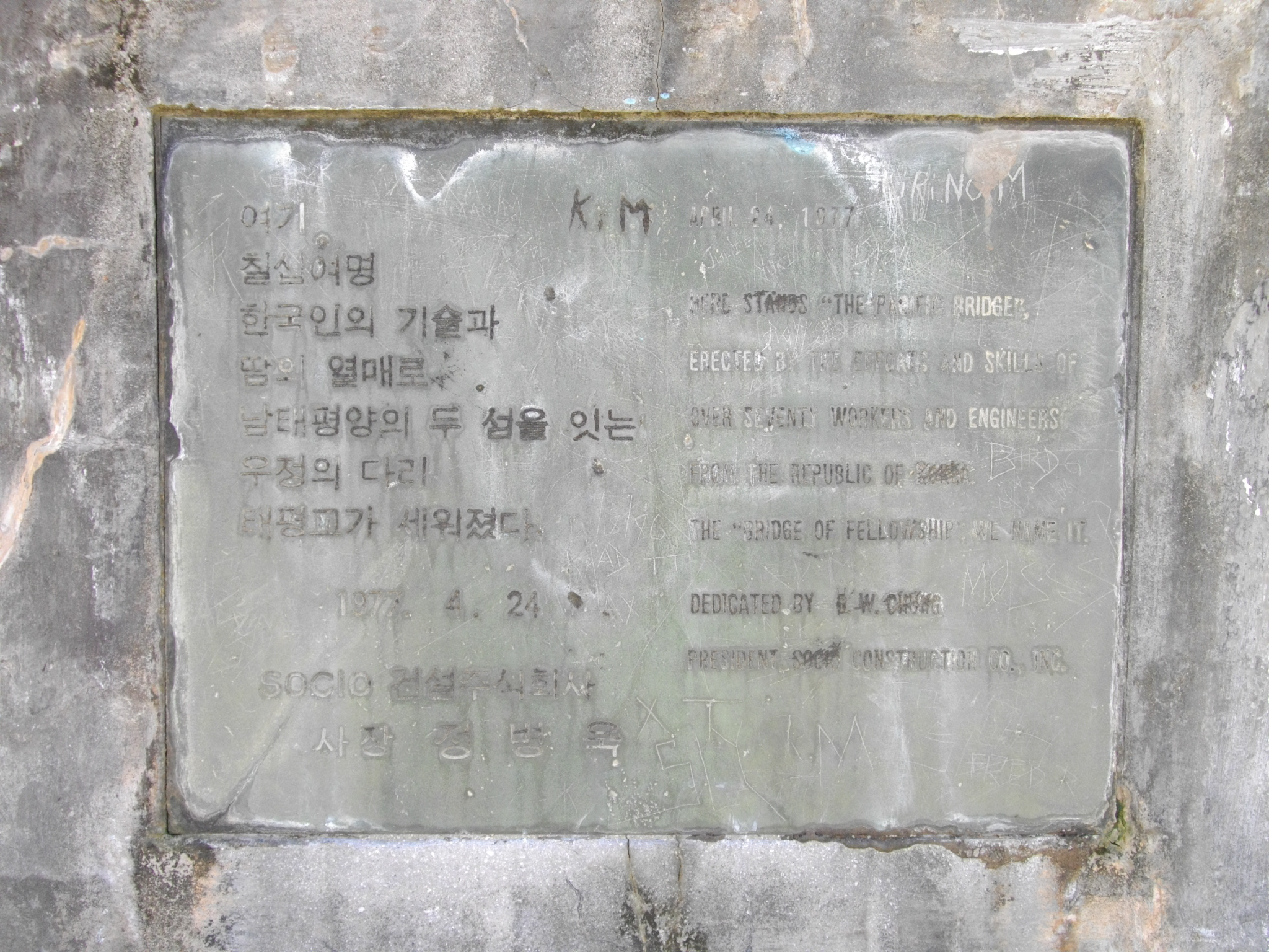 Former Koror-Babeldaob Bridge monument